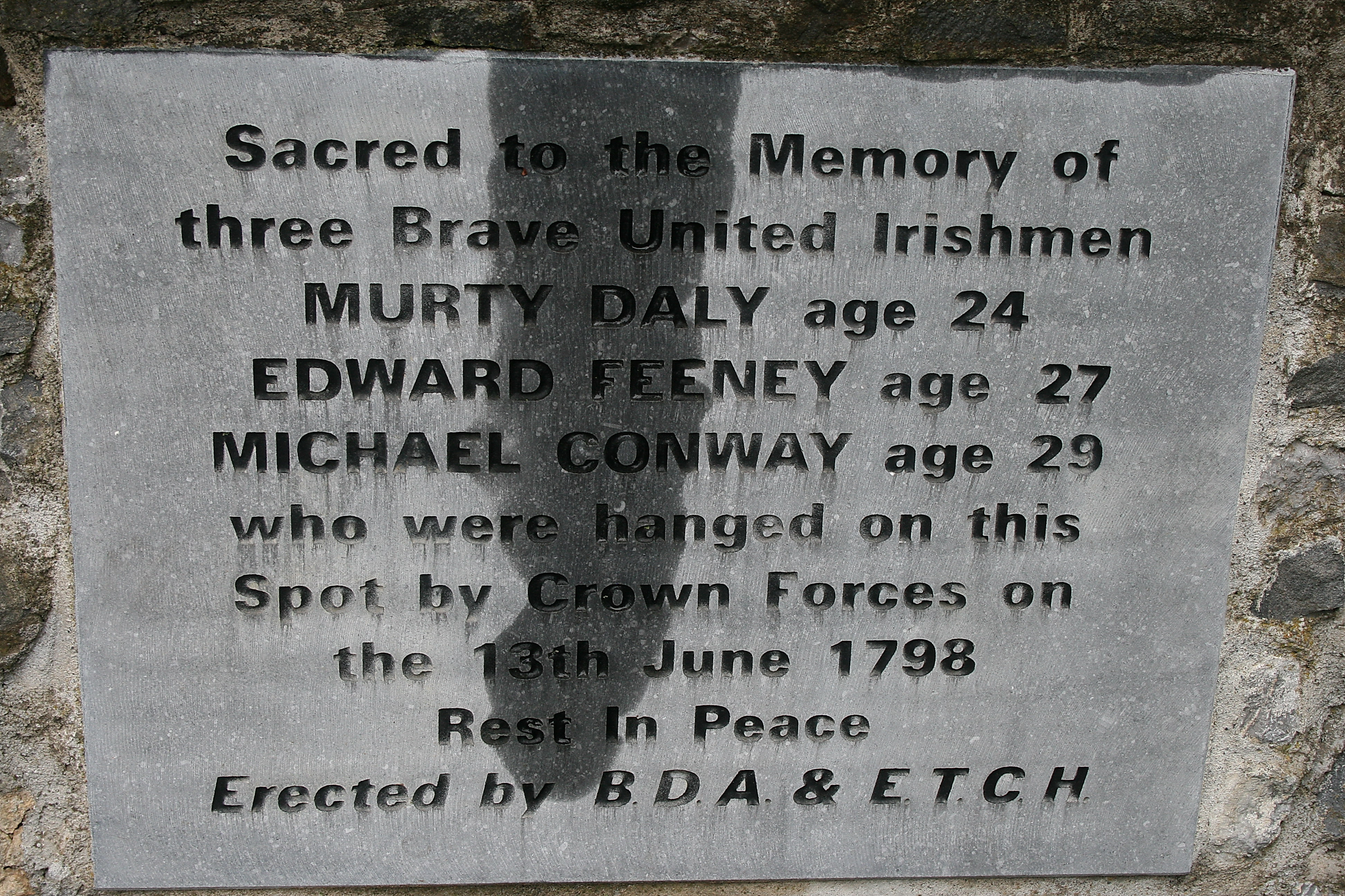 Memorial plaque to the Irish Rebellion of 1798 in Ballycumber in Ireland.